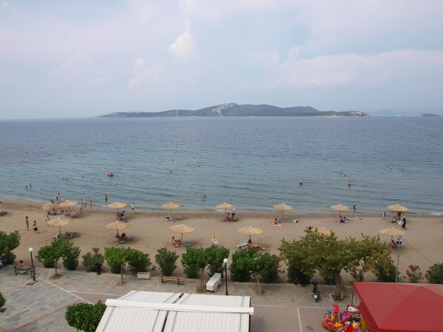 Styra islet opposite Styra village in Euboea, Greece